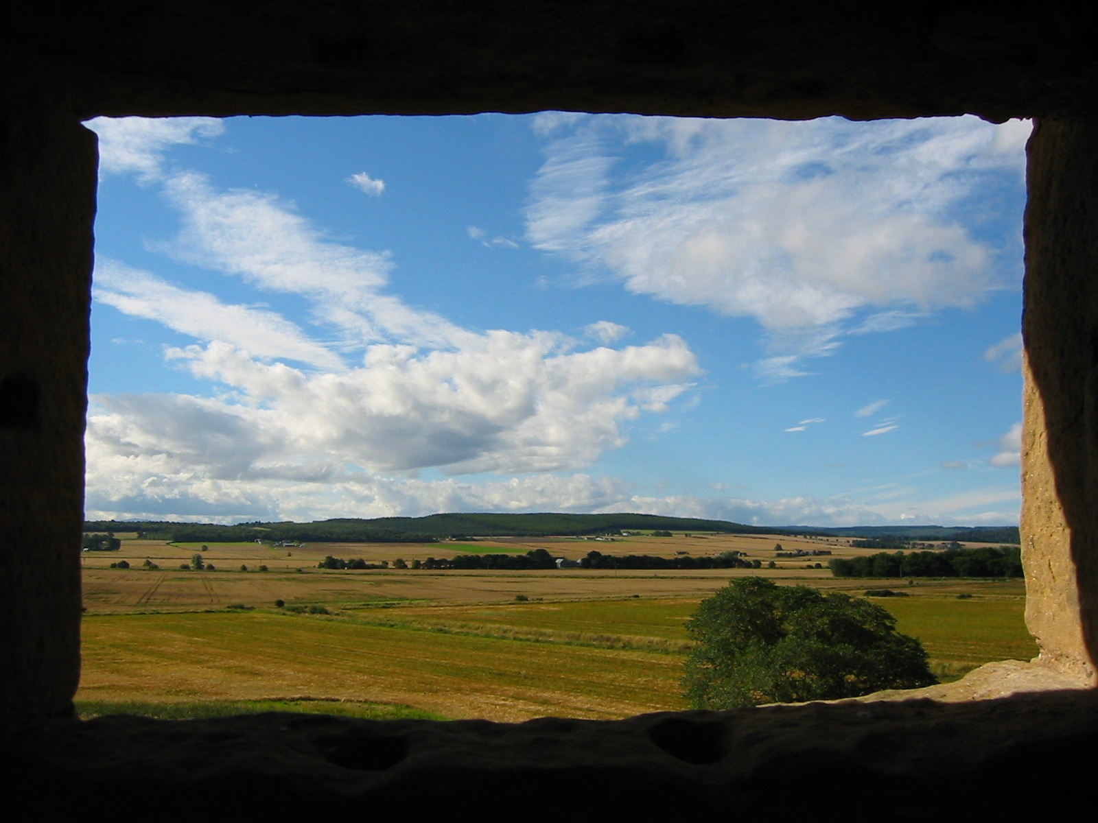 Duffus Castle, Scotland. Further information can be found here